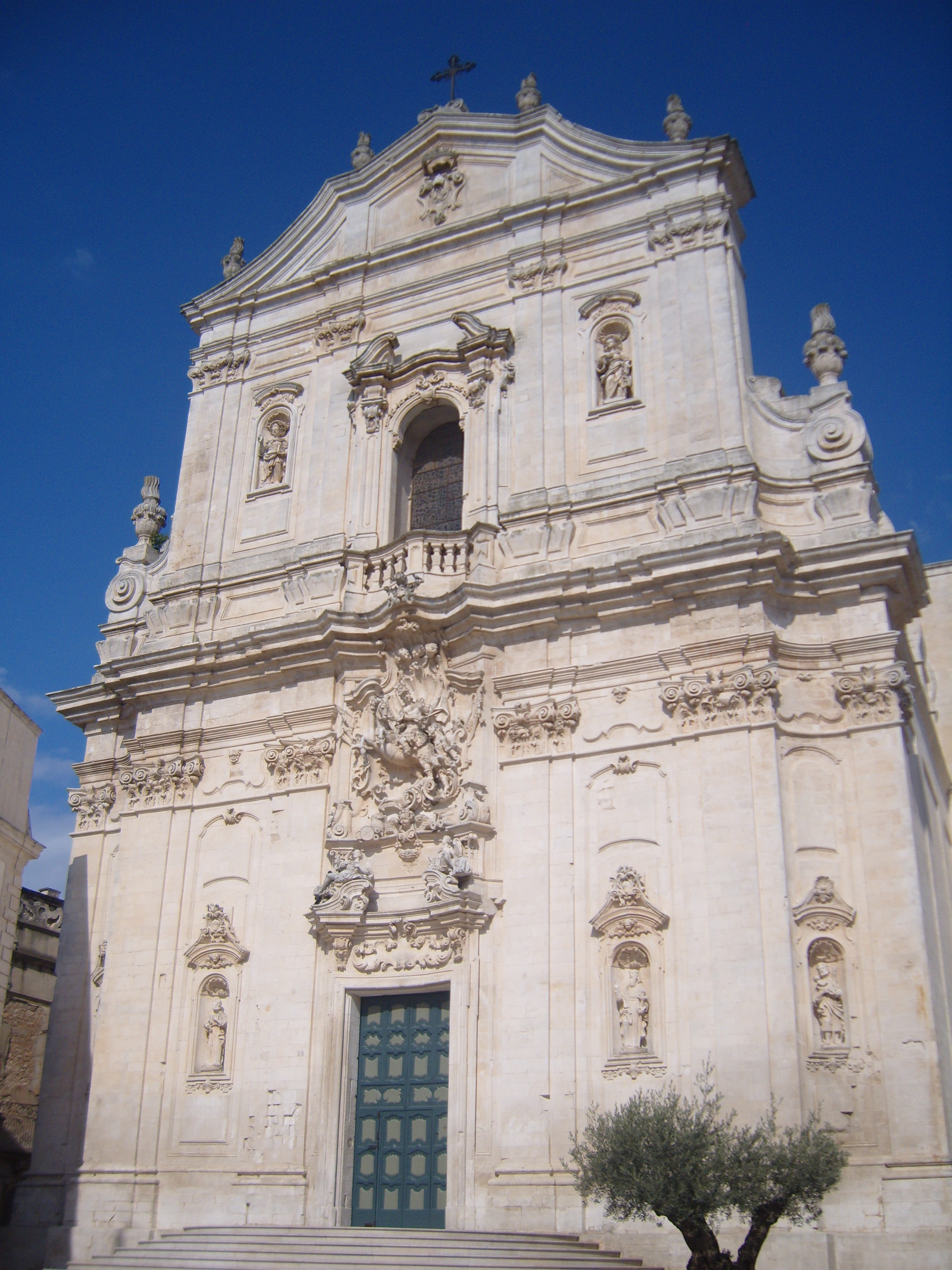 St. Martino's Basilica. Martina Franca, Province of Taranto, Italy